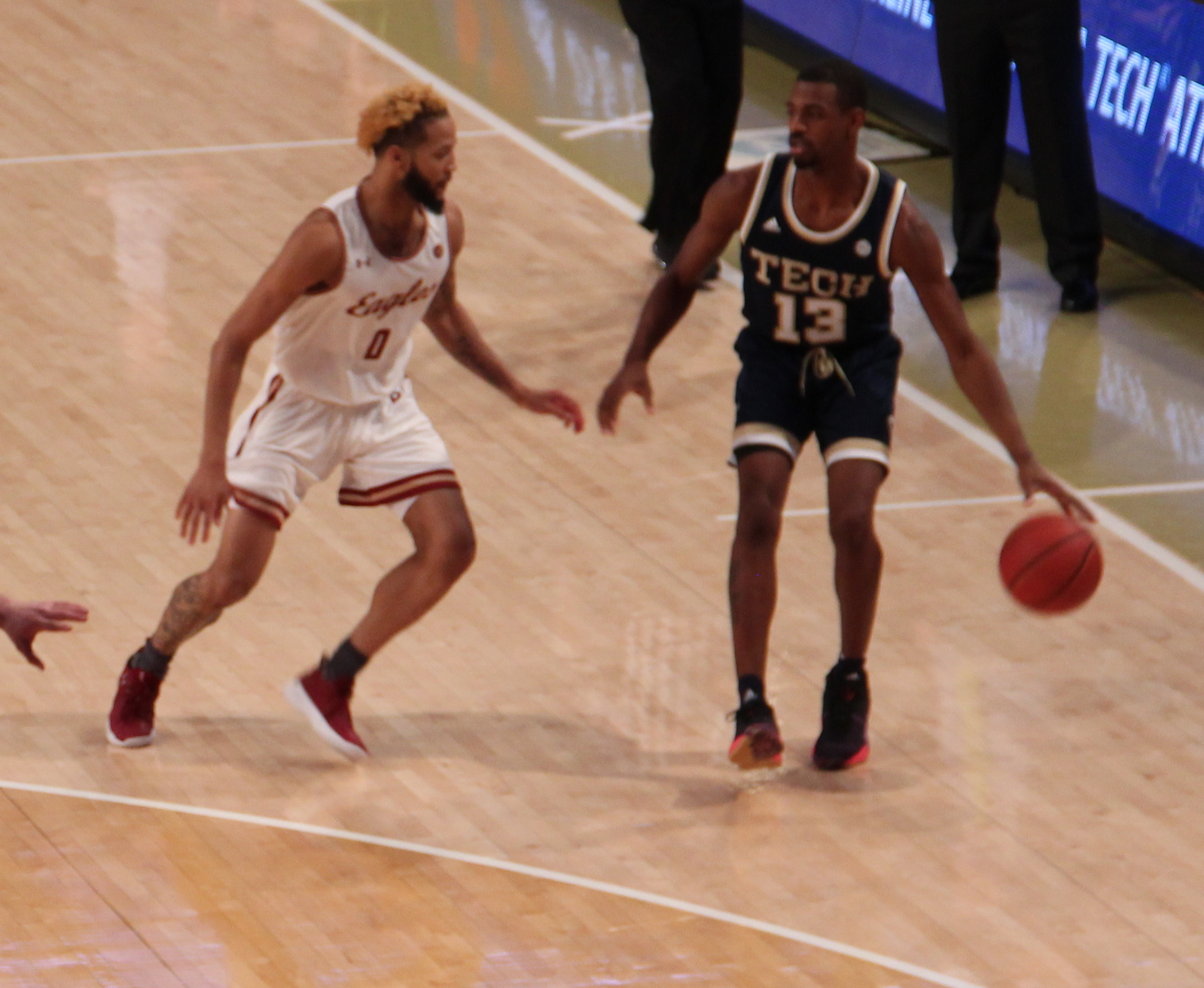 Georgia Tech Yellow Jackets vs. Boston College Eagles, March 3, 2019 (men's basketball)